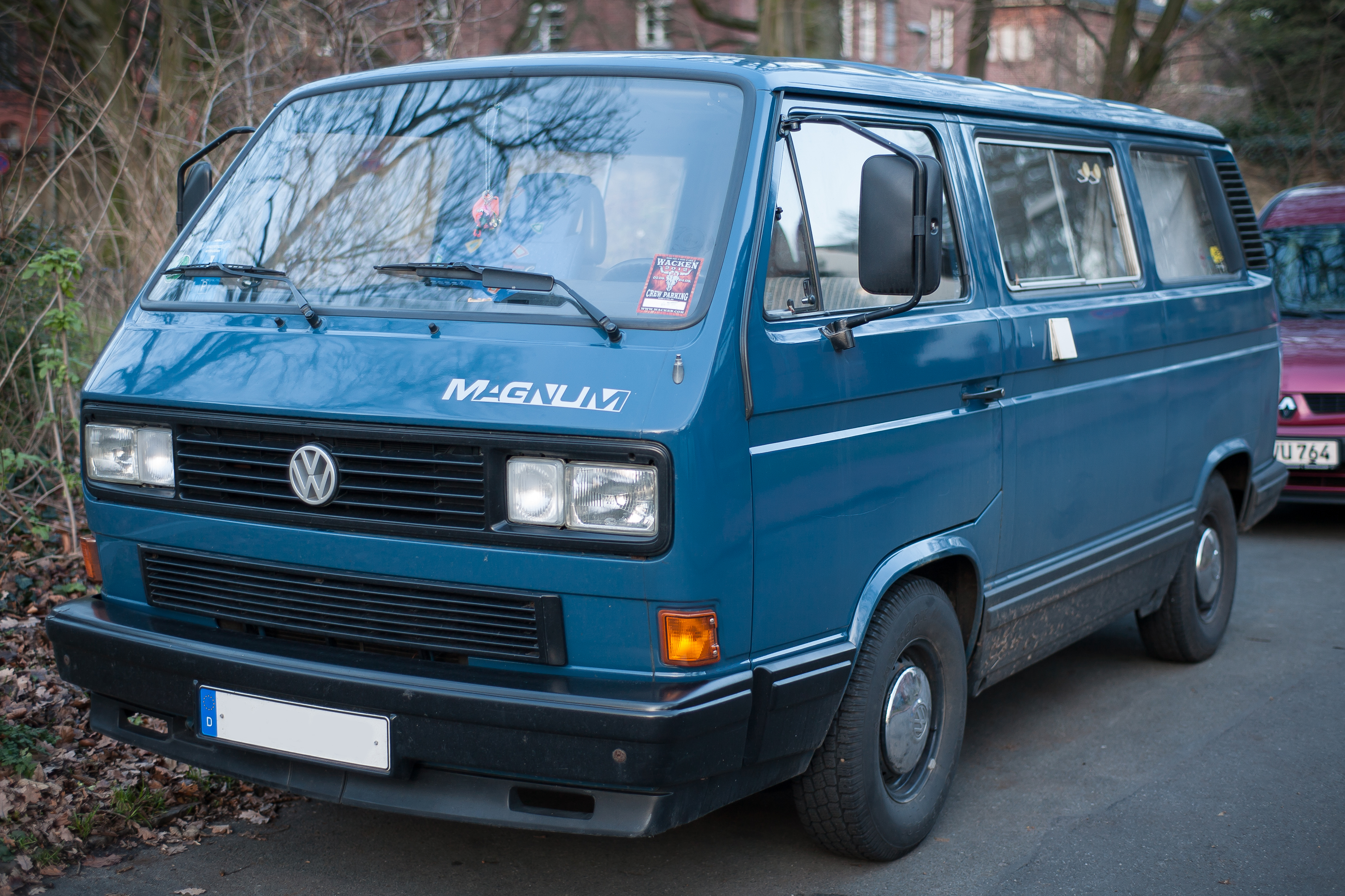 Volkswagen T3 Multivan, "Magnum" special model.